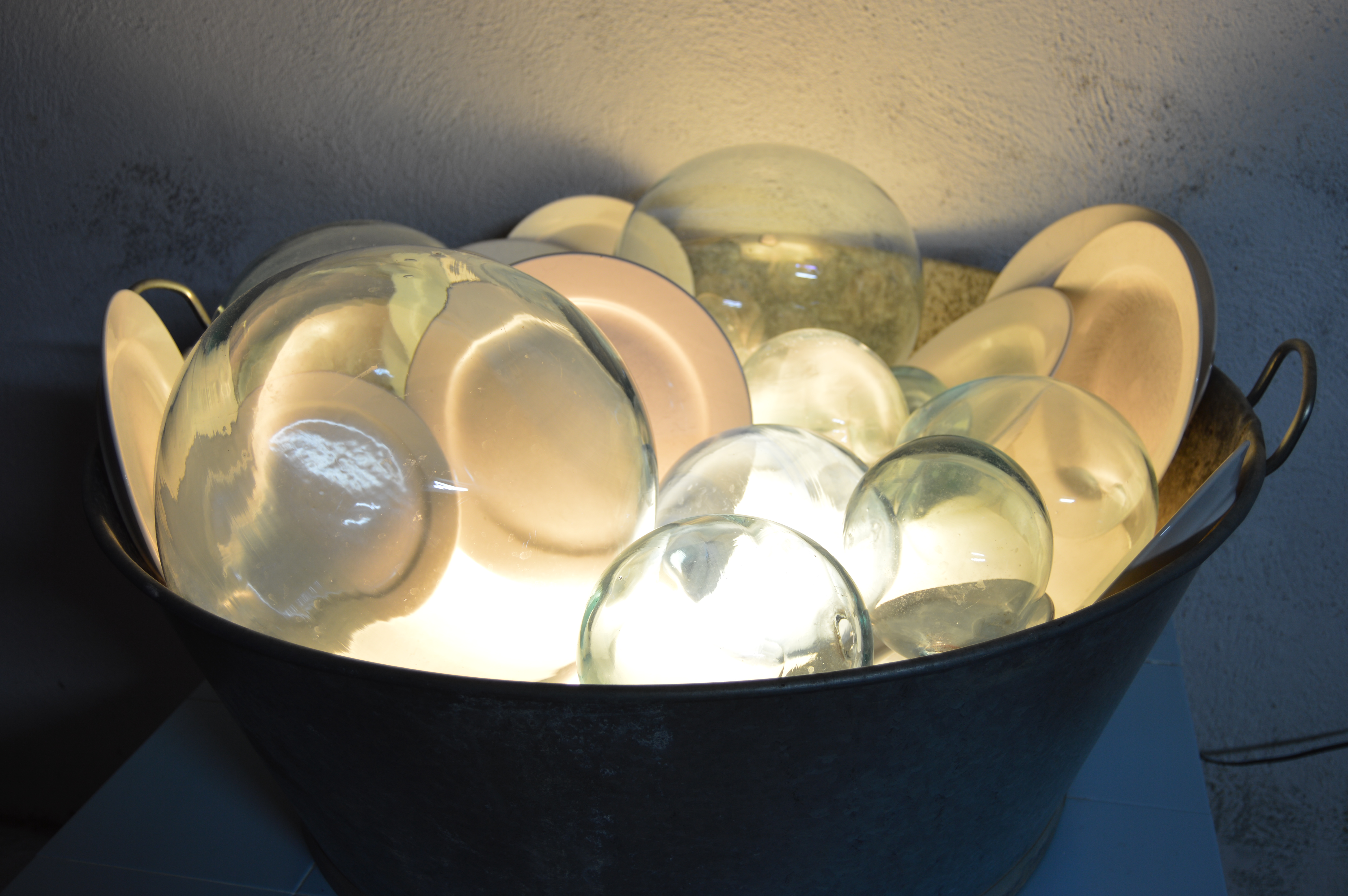 This work is part of the art collection of the City Council of Cambrils. It was the winner of the II Gastronomic Art Biennale of this town. It is currently permanently exhibited at the Molí dels tres Eres Museum in Cambrils